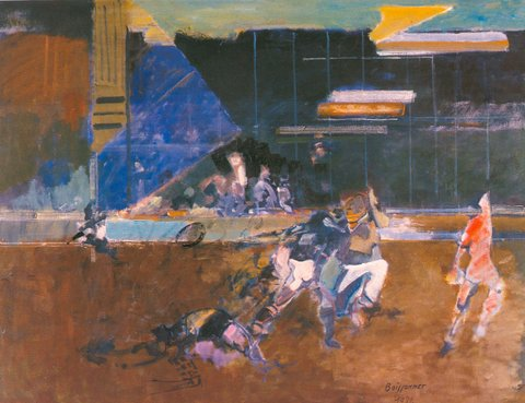 Edmond Boissonnet